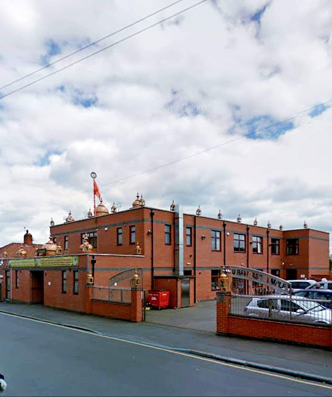 Gurdwara Guru Ravidass Temple, Leicester